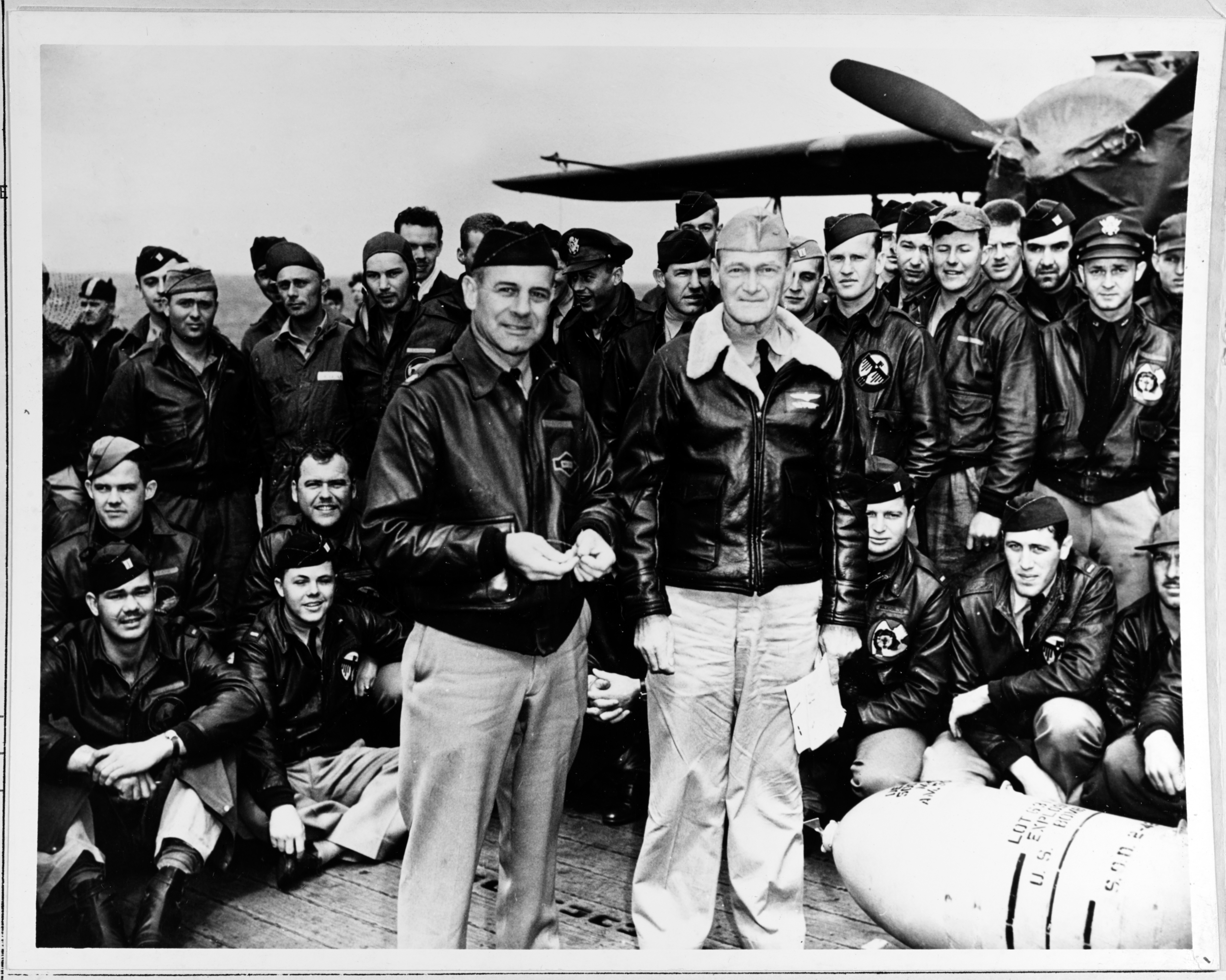 Doolittle Raid on Japan, 18 April 1942: Lieutenant Colonel James H. Doolittle, USAAF (left front), leader of the attacking force, and Captain Marc A. Mitscher, Commanding Officer of the U.S. Navy aircraft carrier USS Hornet (CV-8), pose with a 500-pound bomb and USAAF aircrew members during ceremonies on Hornet's flight deck, while the raid task force was en route to the launching point.